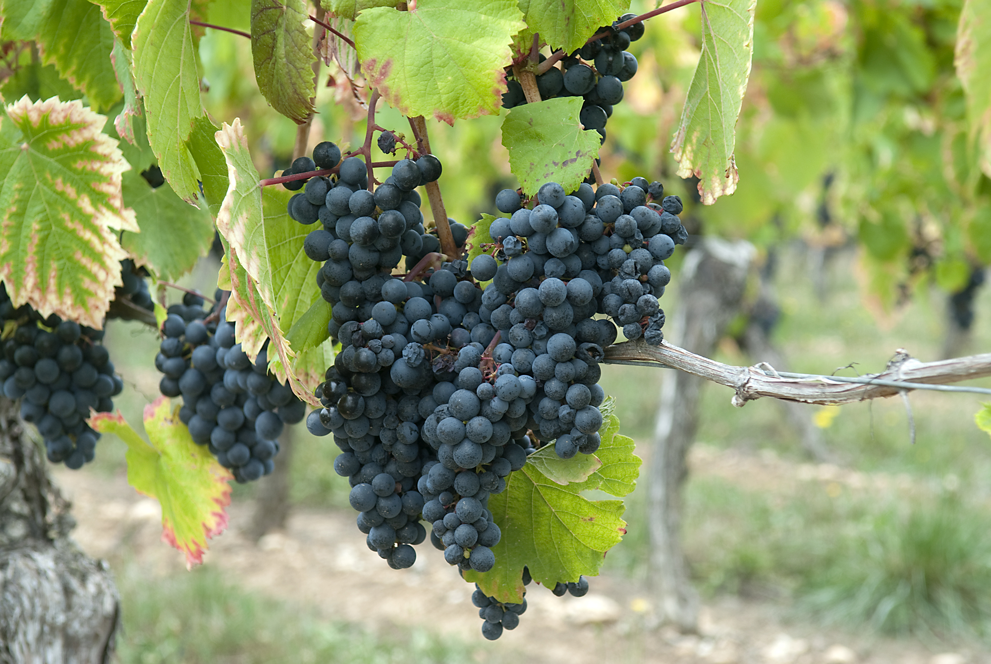 cahors vineyards grapes (luzech - october 2009).